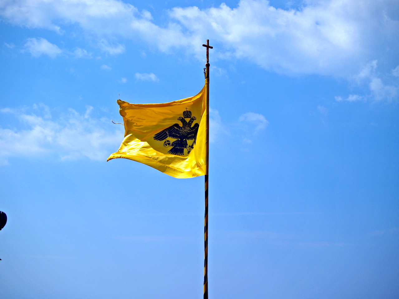 Flag of Athos